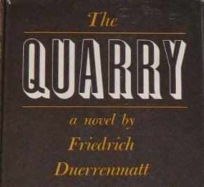 Upper part (~⅔) of the book cover of Friedrich Dürrenmatt's "The Quarry" (Der Verdacht) Details from source: Publisher: NY: New York Graphic Society, 1962.; 1st US Ed edition (1962) Language: English Product Dimensions: 8.1 x 5.4 x 0.9 inches